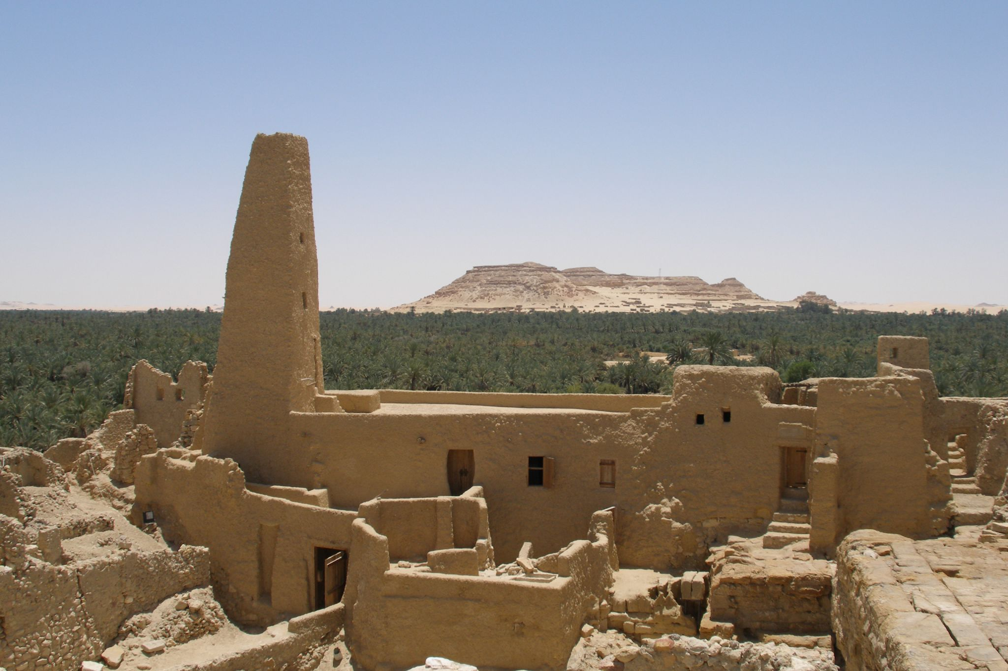 Mosque near the famous Temple of Amun at Siwa Oasis in Egypt. It was visited by Alexander the Great himself in 331 BC after his conquest of Egypt. After Islam arrived, the ancient oracle was converted into a mosque. NOTE: The copyright owner, Vyacheslav Argenberg, requests here that these two lines of text below must be attached to this photo if it is used. ©